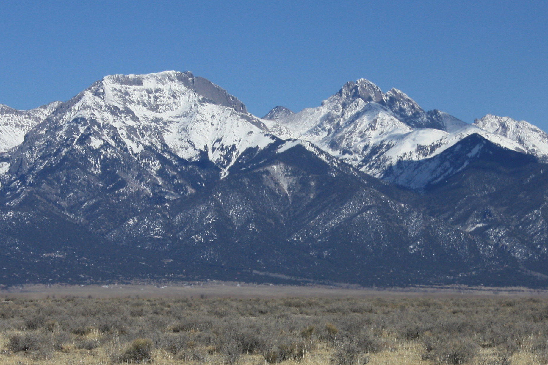 The Crestone Peak group, including Challenger Point, Kit Carson Peak and the Crestone Needle dominate the San Luis Valley.